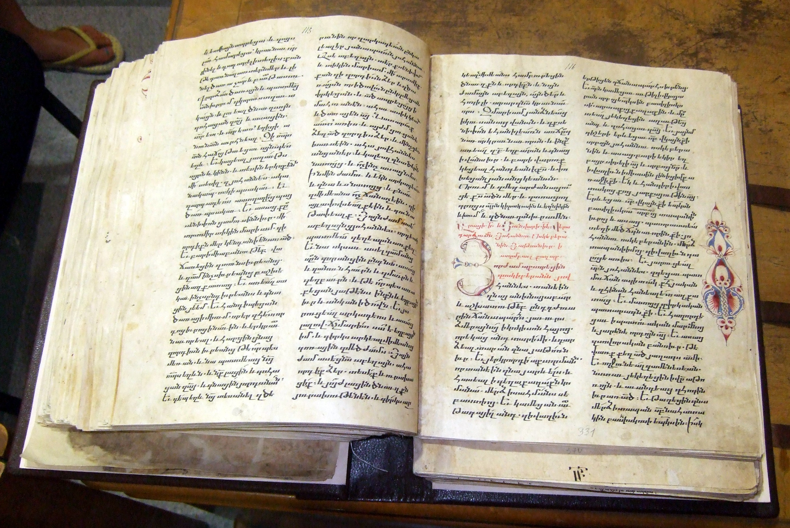 Haysmavurk (Synaxary), which was previously divided into three parts, recently restored in Matenadaran